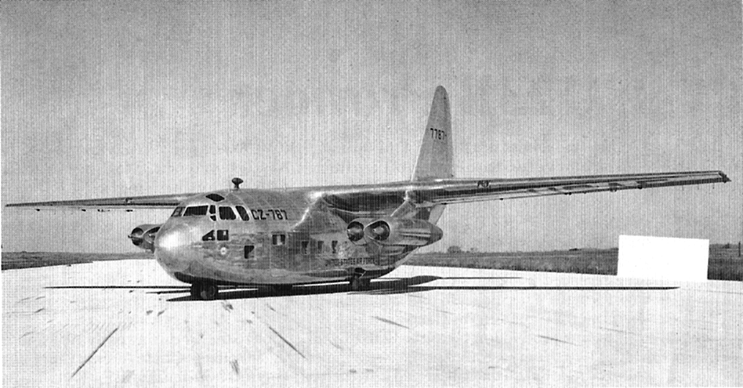 Chase XC-123A "Jet Avitruc" experimental transport aircraft, the first jet-powered transport to fly in the United States.